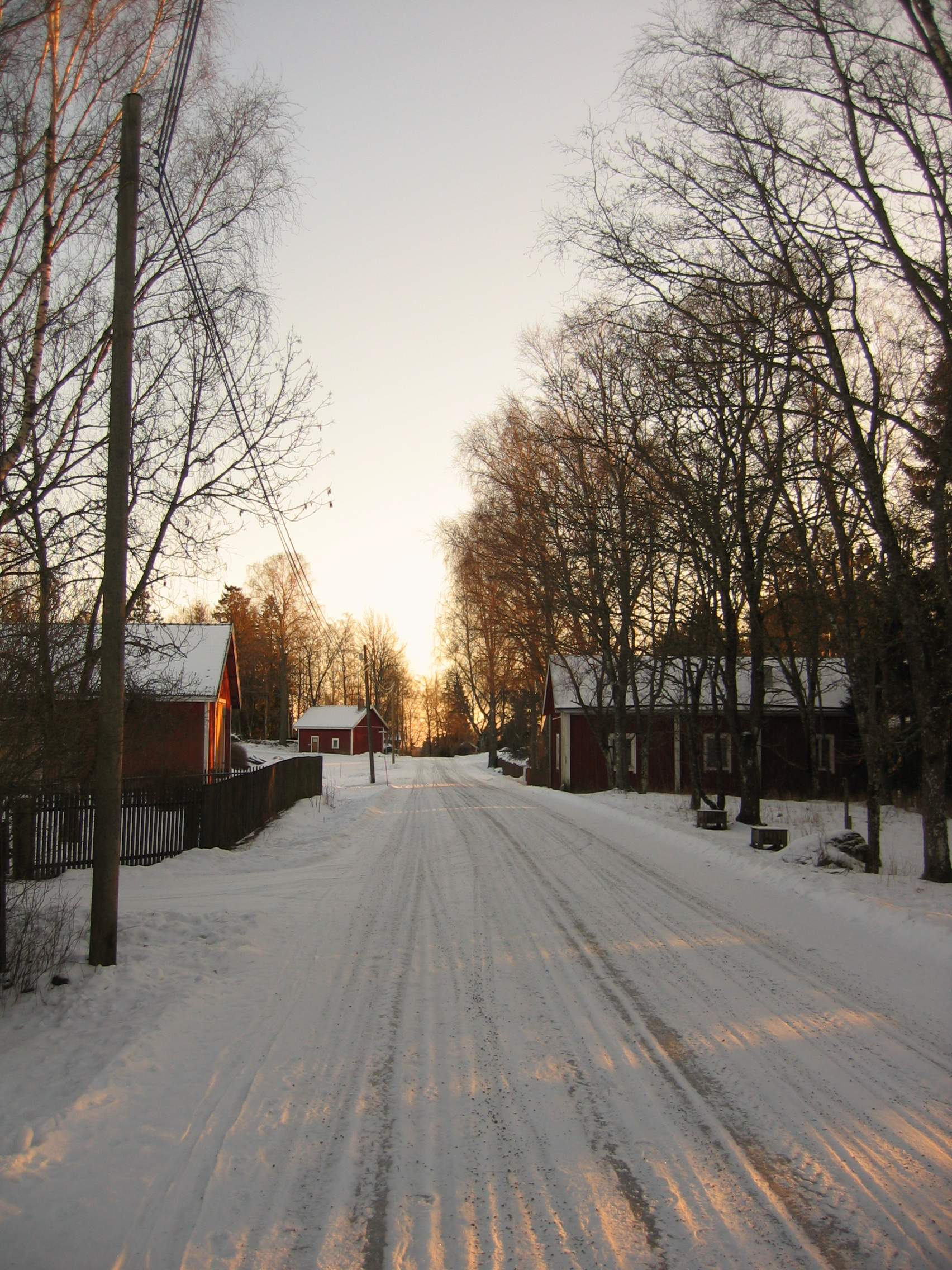 View from the Valaskallio village in Mietoinen, Finland